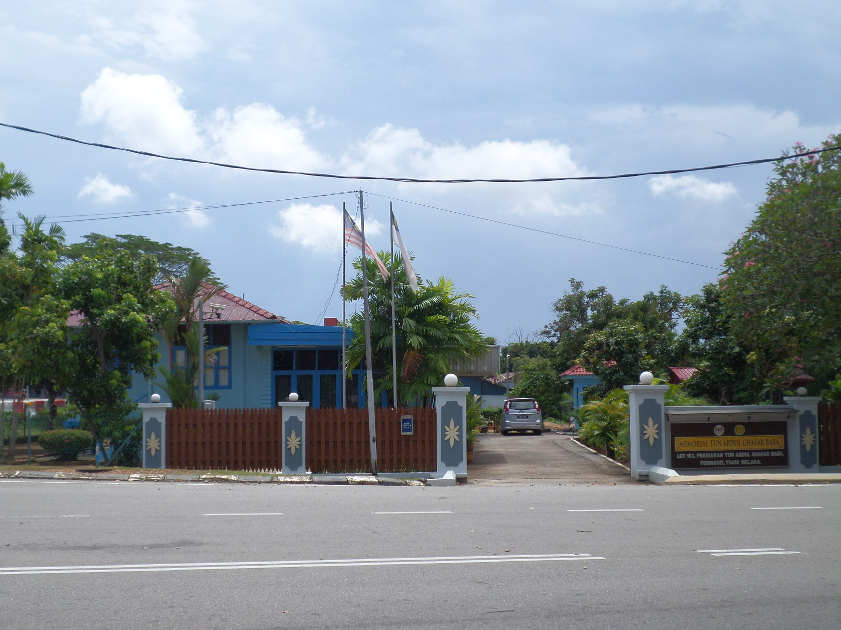 Tun Abdul Ghaffar Baba Memorial, Bukit Peringgit, Malacca, MalaysiaBahasa Melayu: Memorial Tun Abdul Ghaffar Baba, Bukit Peringgit, melaka, Malaysia